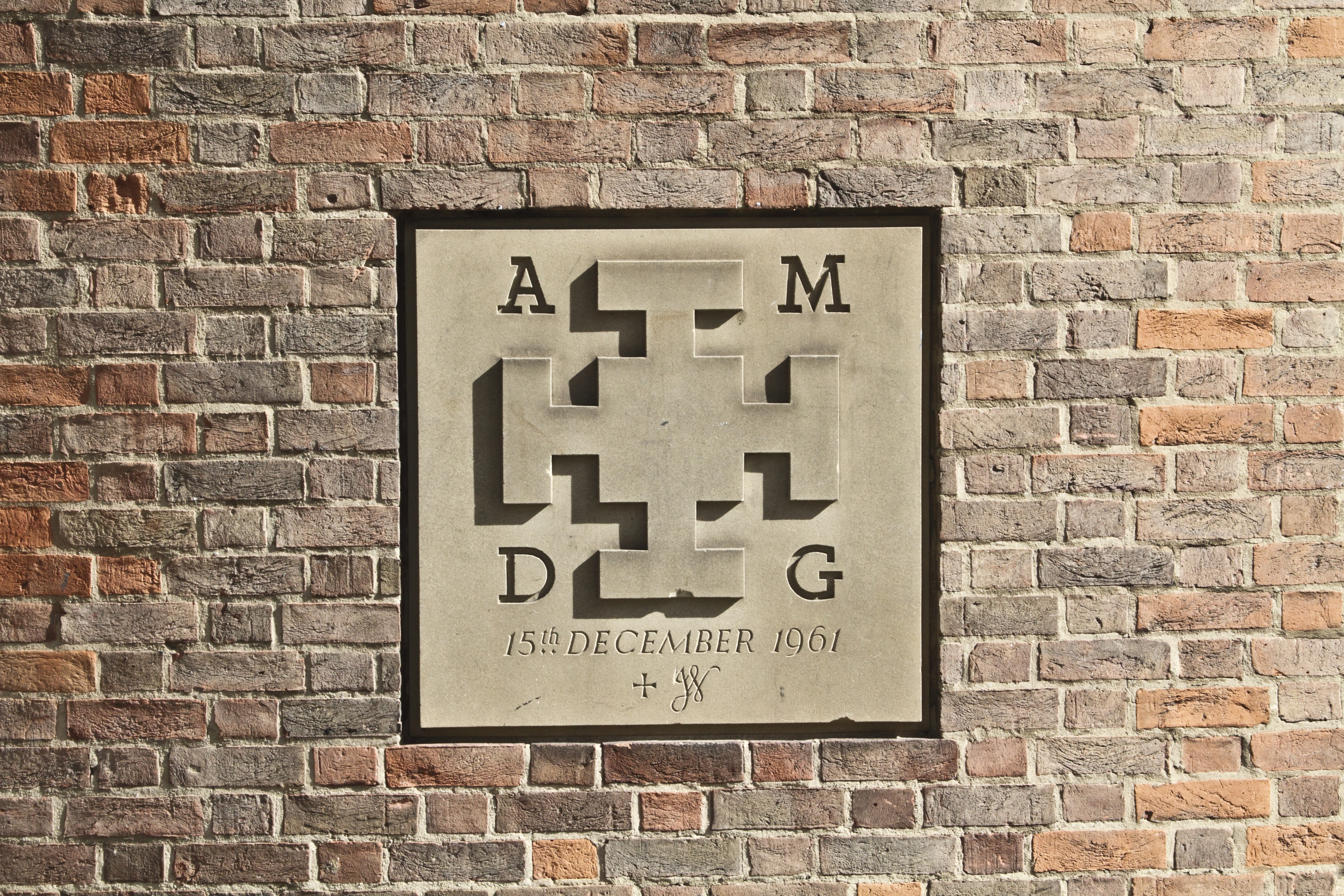 Here is a photograph taken of St Chad's Wall at St Chad's College, Durham. Located in Durham, England, UK. You CAN view and download the full 18megapixel image in Flickr, check out the other sizes when viewing**